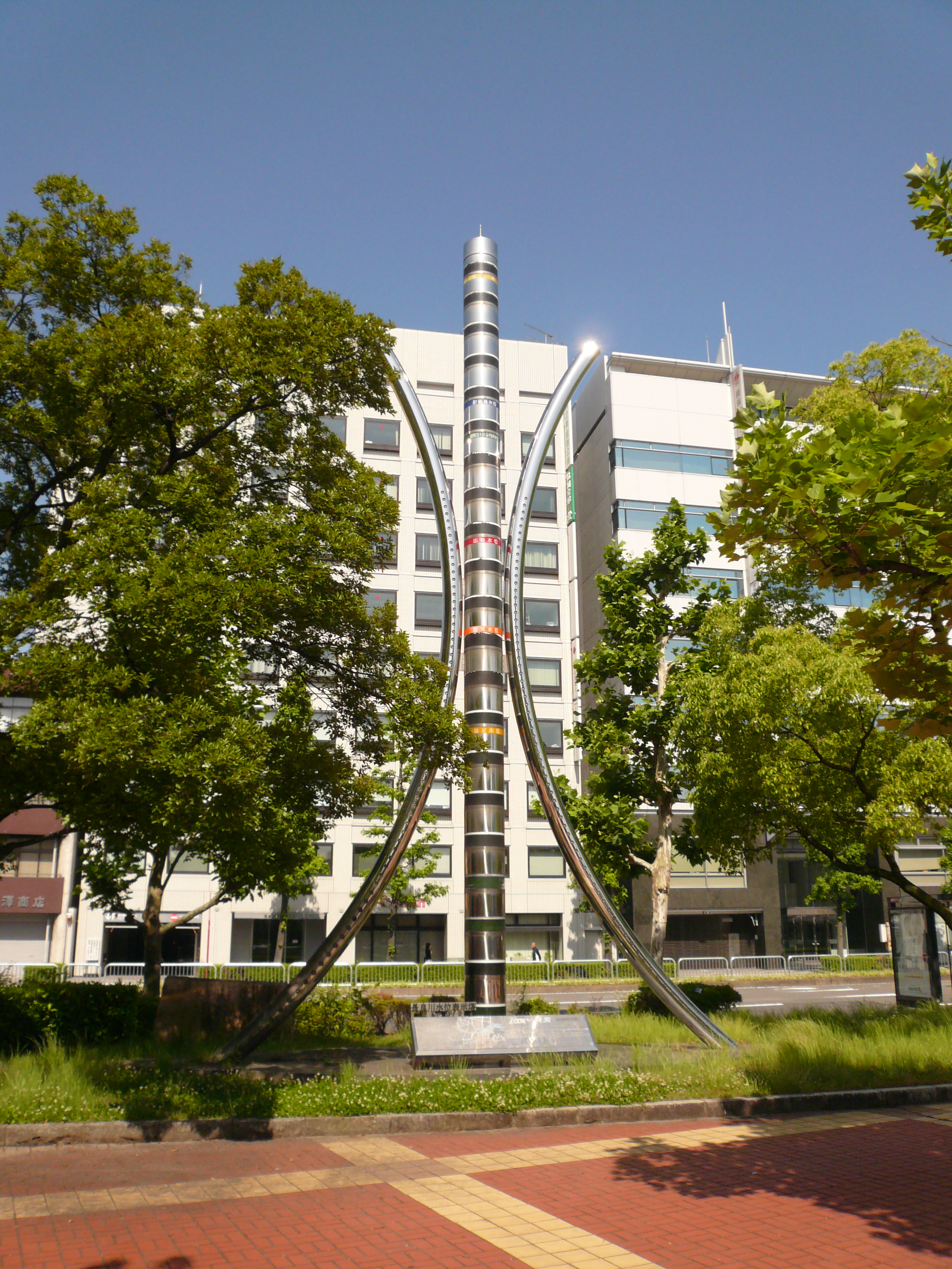 Kogane Park, Gifu, Gifu, Japan